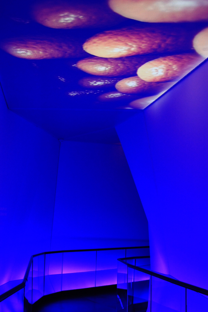 Part of the exhibition of the Mexican Pavilion at Expo 2008 Zaragoza.